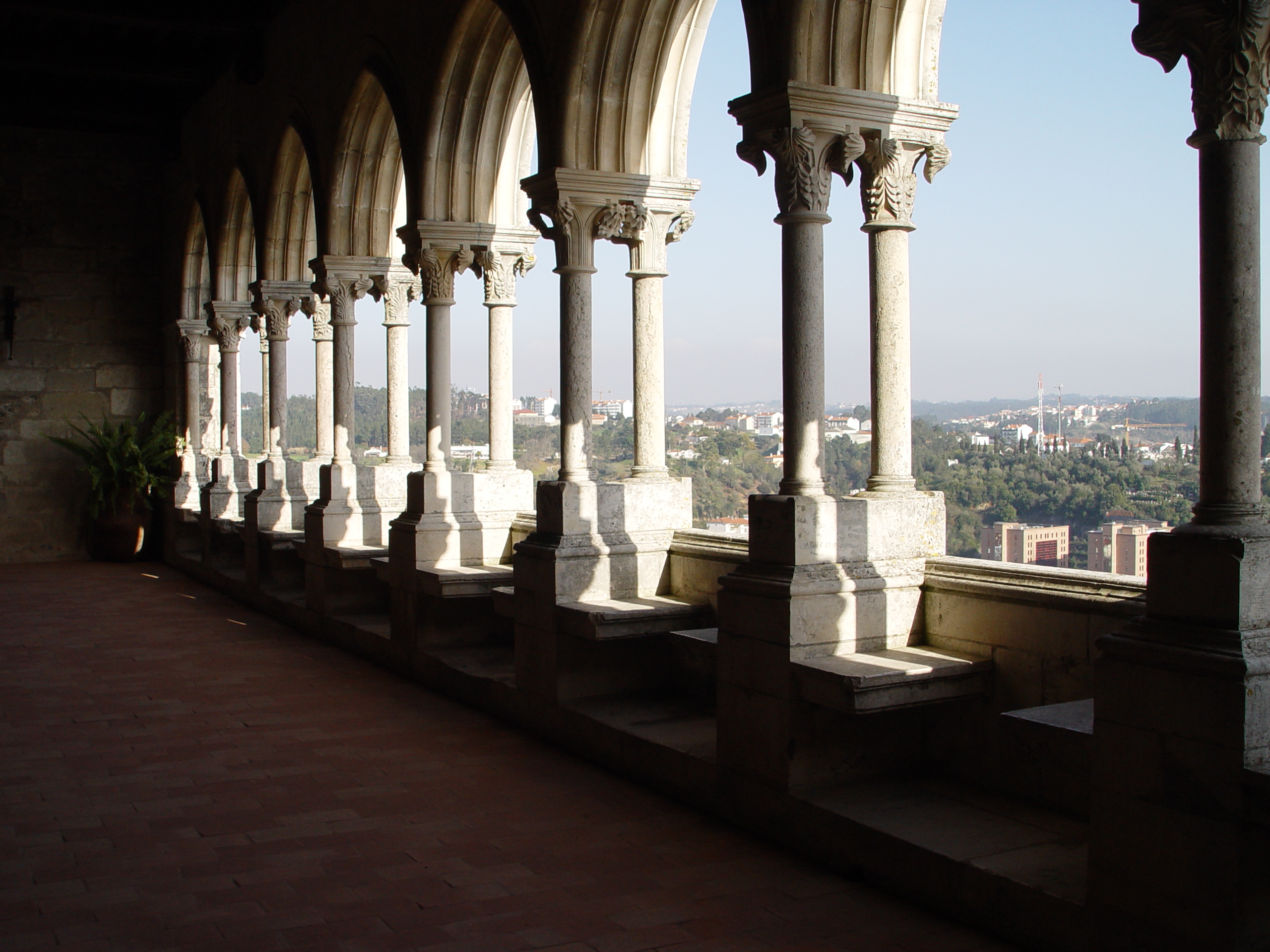 Author: Orium